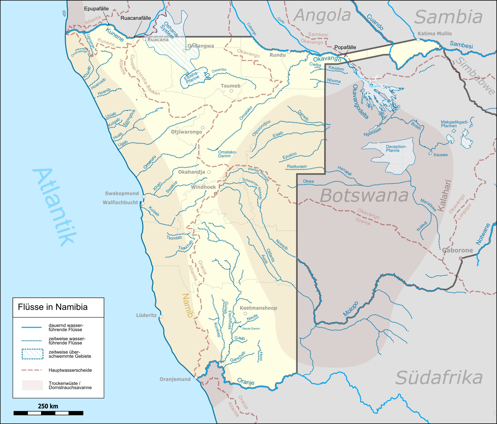 Rivers in Namibia, index in German